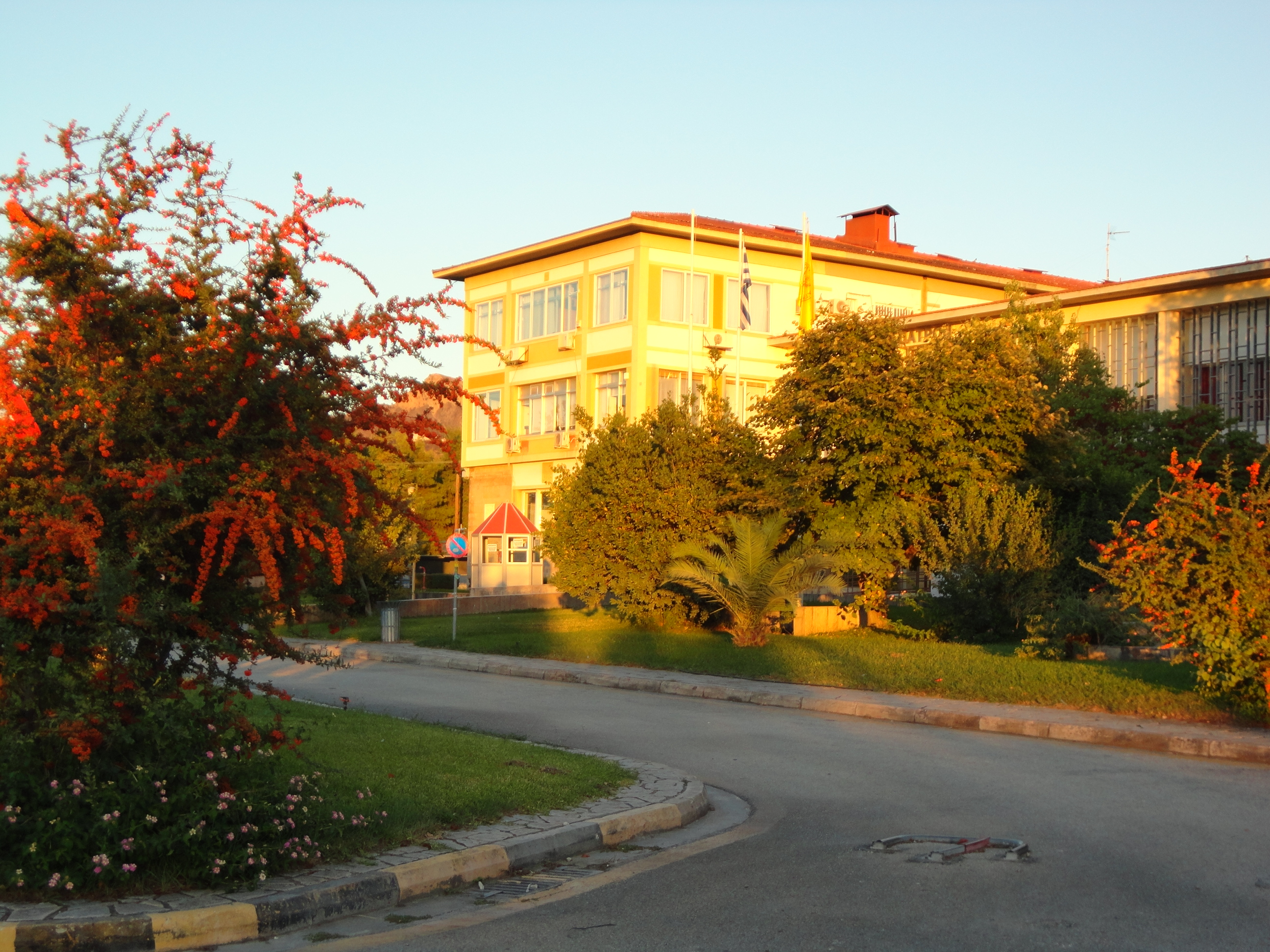 University of Patras, Administration buidling in the afternoon light